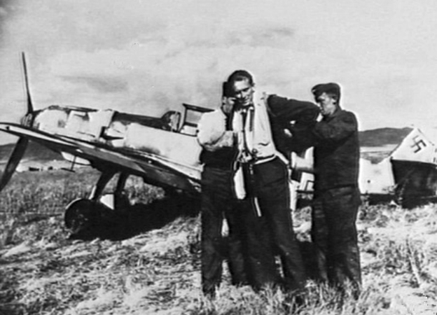 German Luftwaffe pilot Erbo Graf von Kageneck, holder of the Knight's Cross of the Iron Cross with Oak Leaves, standing in front of his Messerschmitt Me 109E in Sicily, Italy, whilst being assisted by two ground crew personnel. Von Kageneck, responsible for the destruction of 69 allied aircraft, was later shot down by RAAF pilot, Flying Officer Clive R. Caldwell, (who was attached to 250 squadron, Royal Air Force) on the afternoon of 24 December 1941 near Derna in Libya. Kageneck later died in the flight to a hospital in Naples on 12 January 1942.